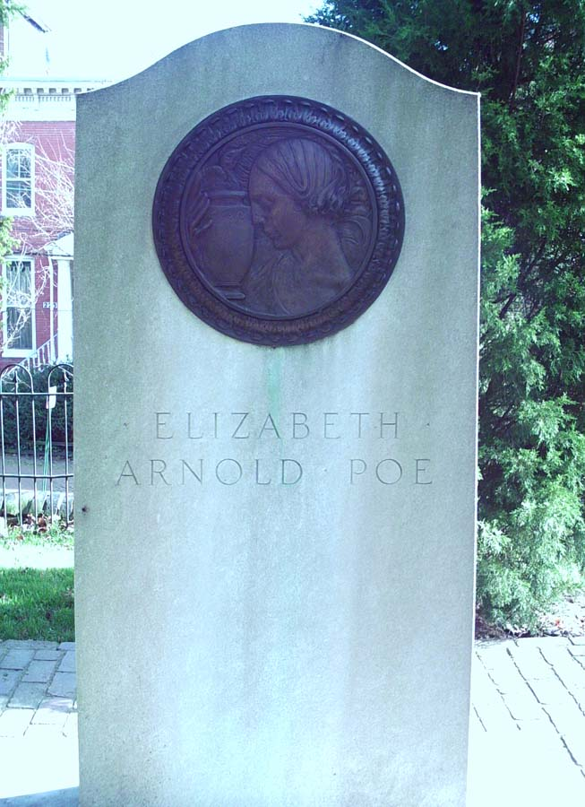 Grave stone of Eliza Poe, mother of Edgar Allan Poe